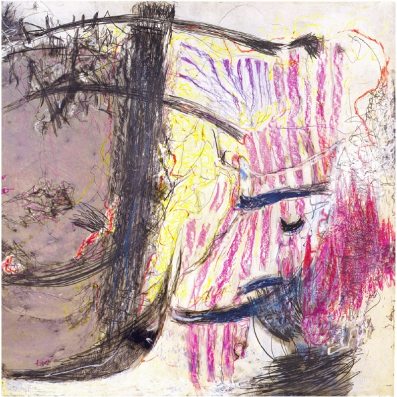 Zvi Mairovich Panda, oil pastel/paper 39 x 39 cm 1971